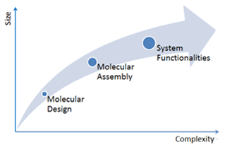 Illustrating size versus complexity.